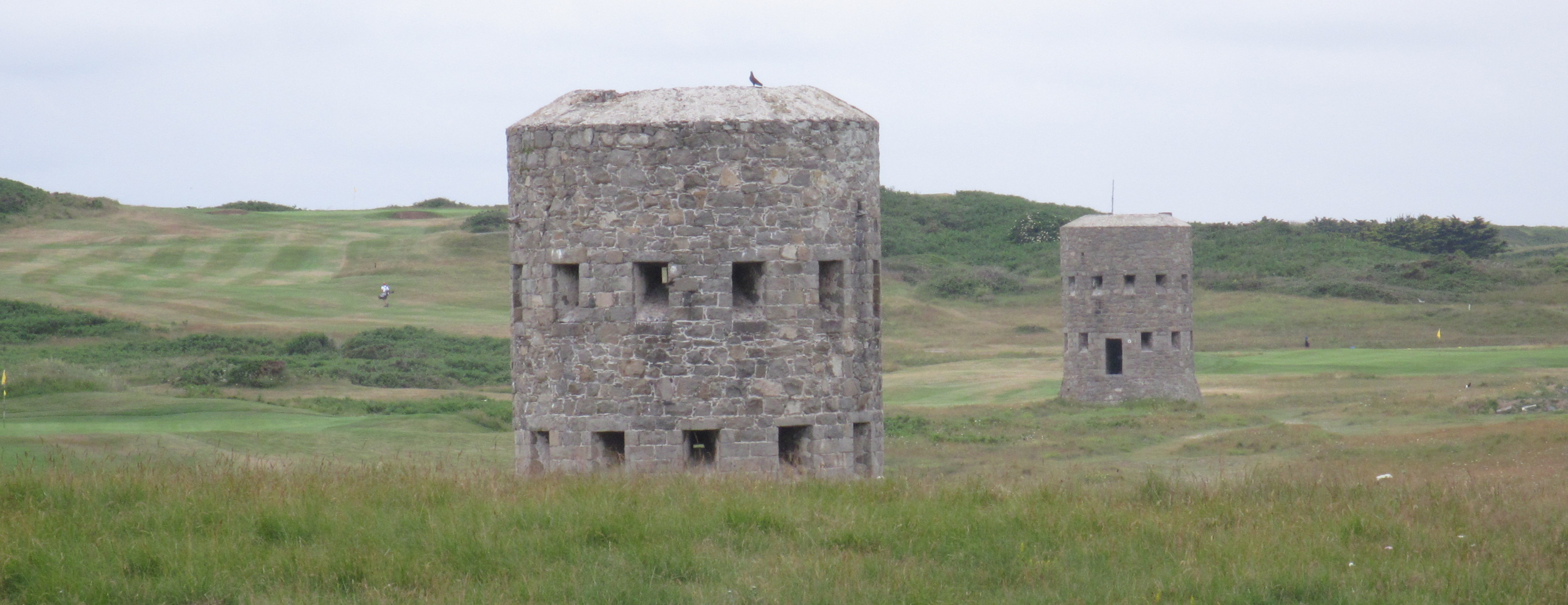 Guernsey, 2 July 2010: L'Ancresse, martello towers at the Royal Guernsey Golf Club in Vale